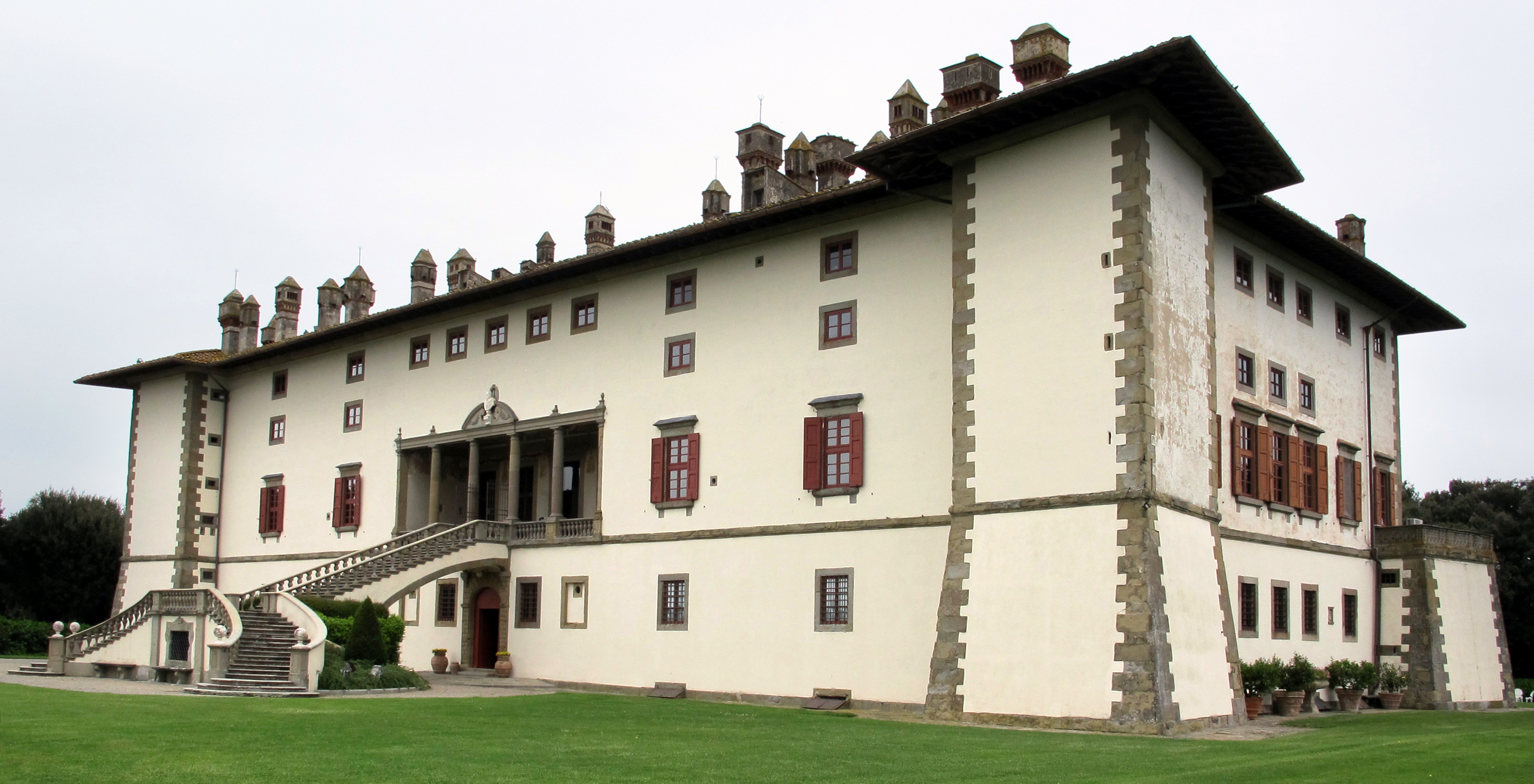 Medici Villa of Artimino